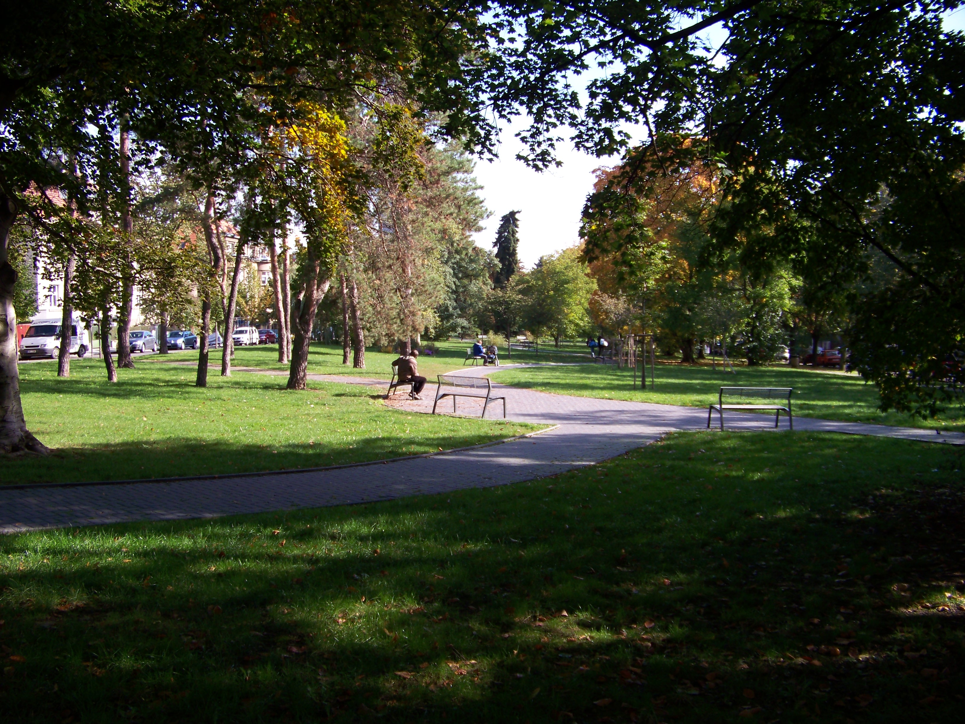 Prague-Dejvice, the Czech Republic. Hadovka Park. - OpenStreetMap(Info)